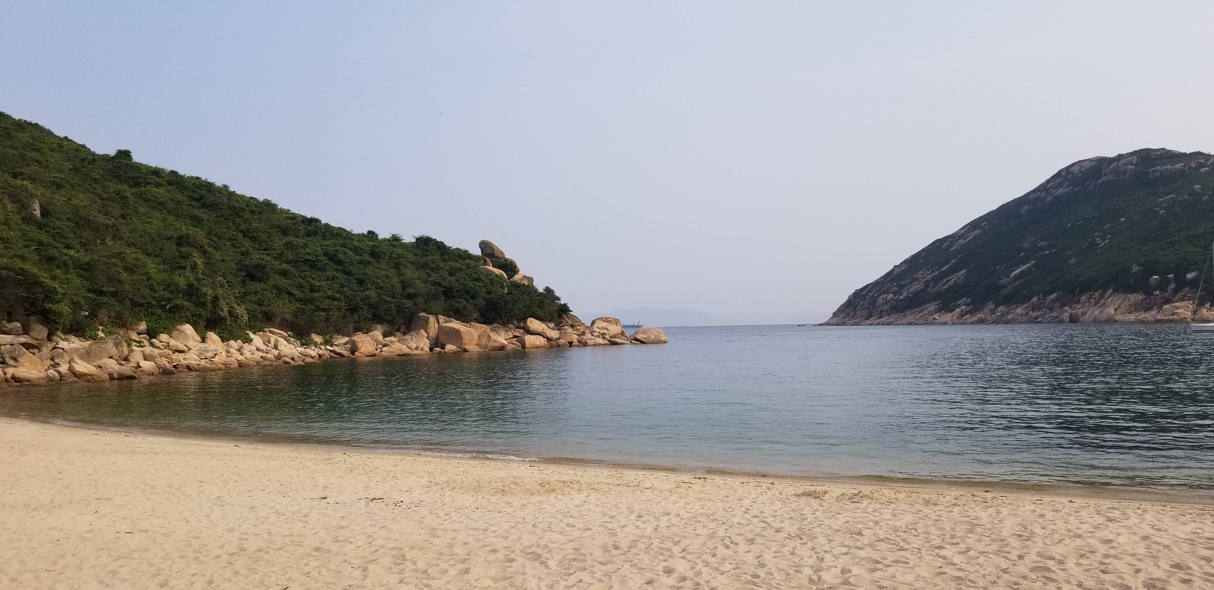 Sham Wan beach. Sham Wan is a sea turtle nesting beach on Lamma island in Hong Kong.